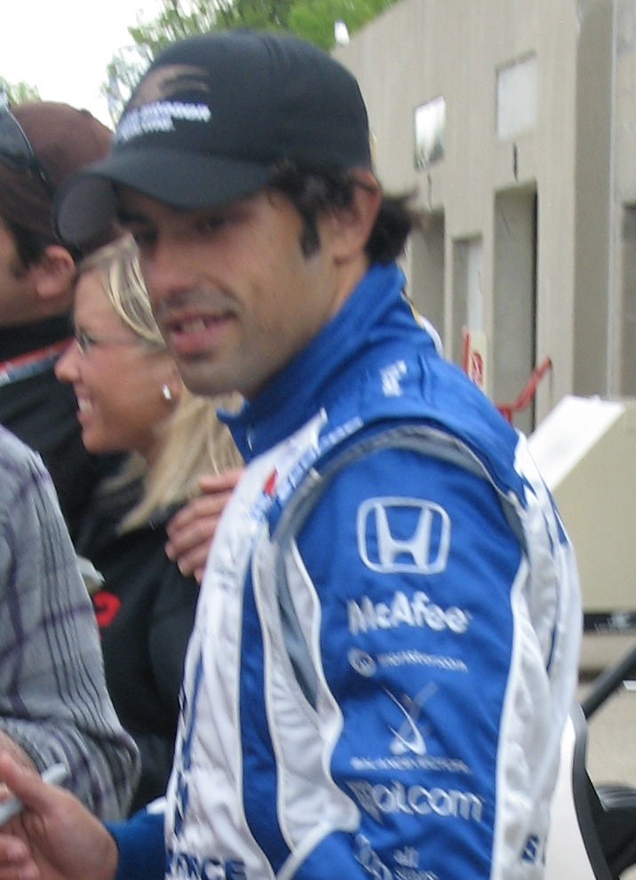 Raphael Matos at the Indianapolis Motor Speedway for Pole day qualifications for the 2009 Indianapolis 500.